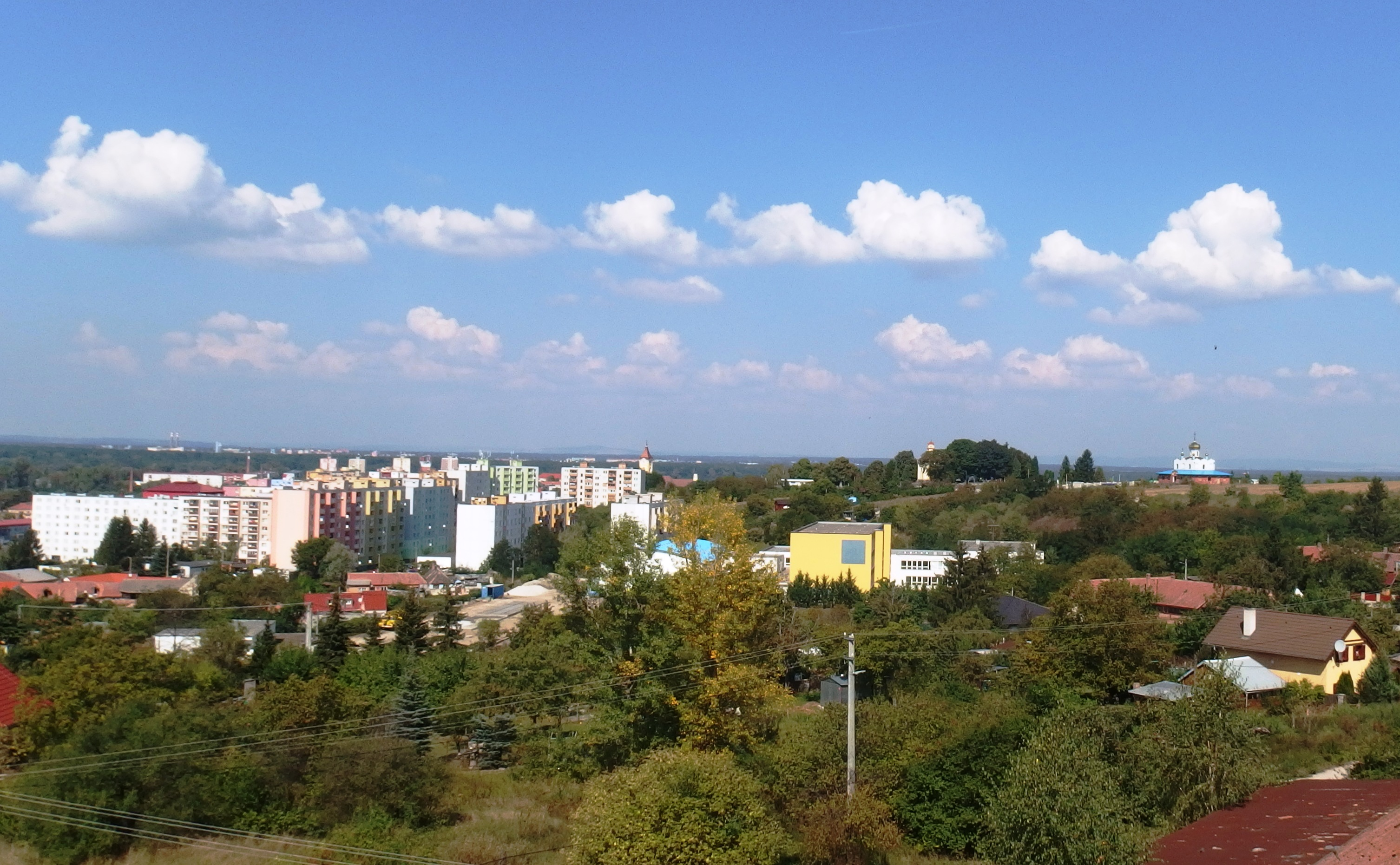 Holíč, Skalica.District, Slovakia.